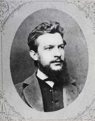 Frederik Sextus Otto Alfred Petersen Nygaard (1845-1897), Danish priest and historian of religion